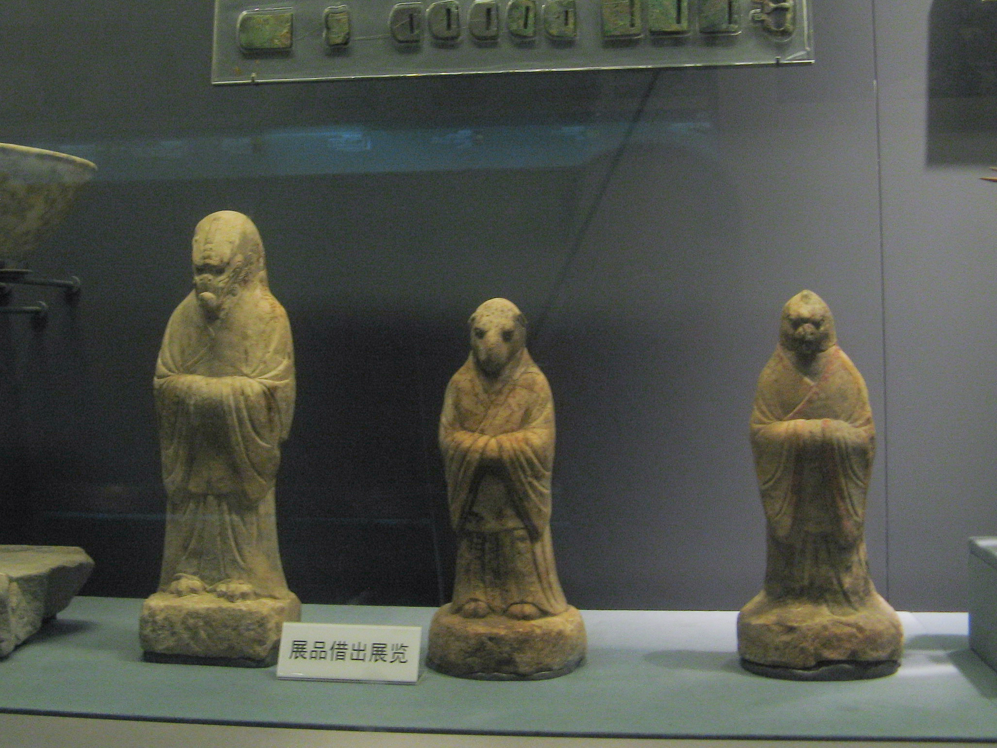 Chinese zodiac. Excavated in Yaojiajing, Beijing. Tang Dynasty. Housed at Capital Museum, Beijing, China.